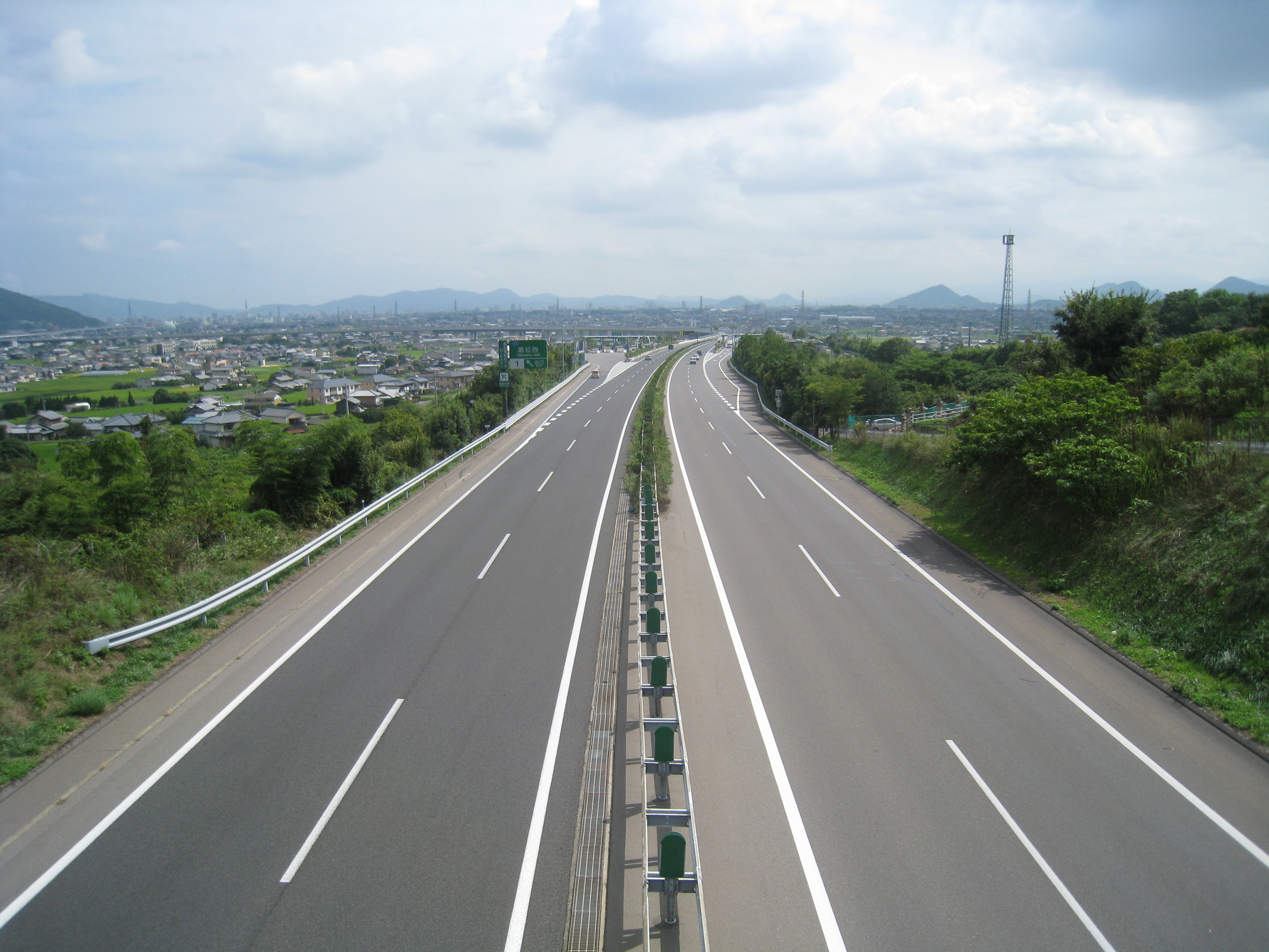 Takamatsu expressway Japanese highway